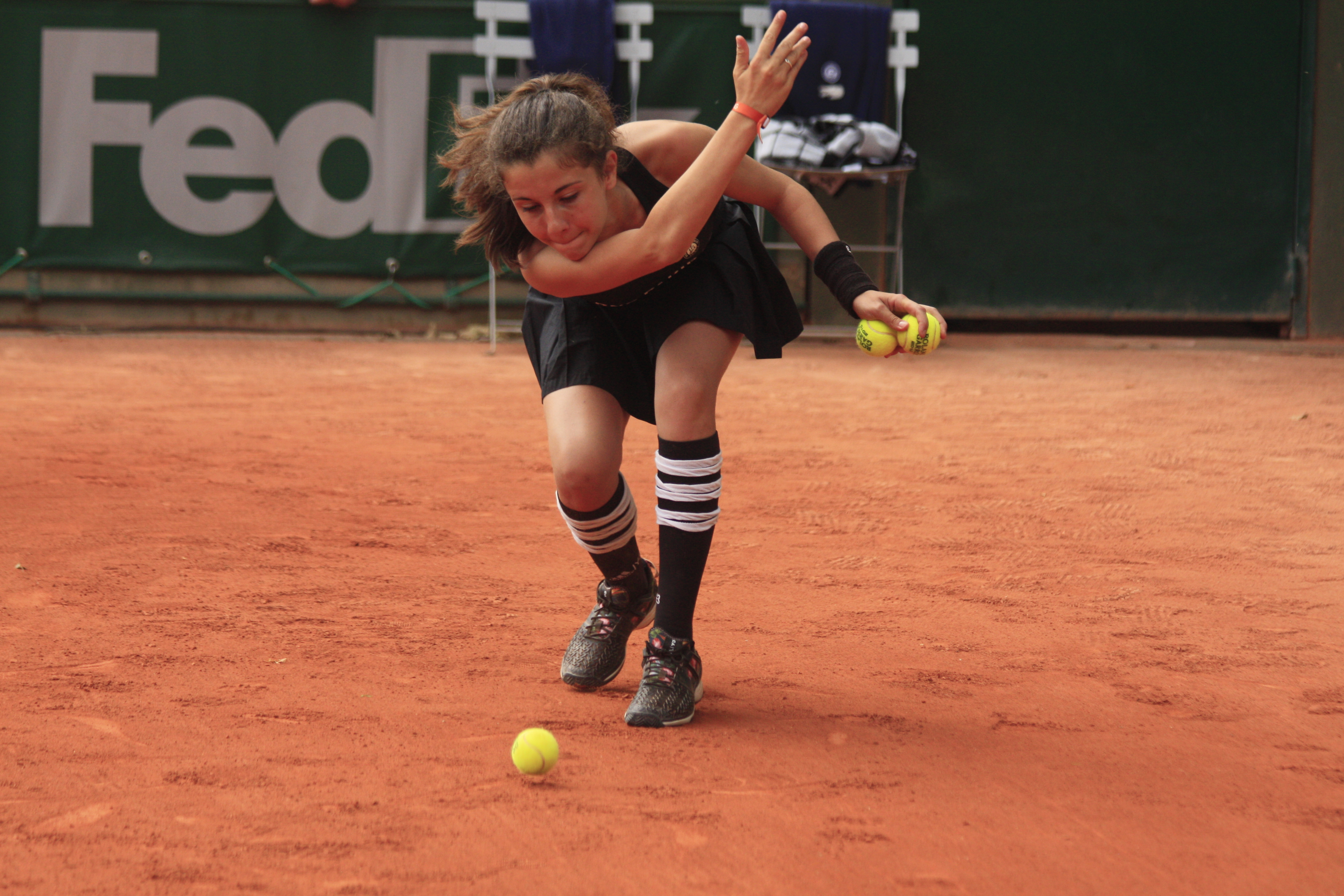 Ballgirl during the 2015 French Open.